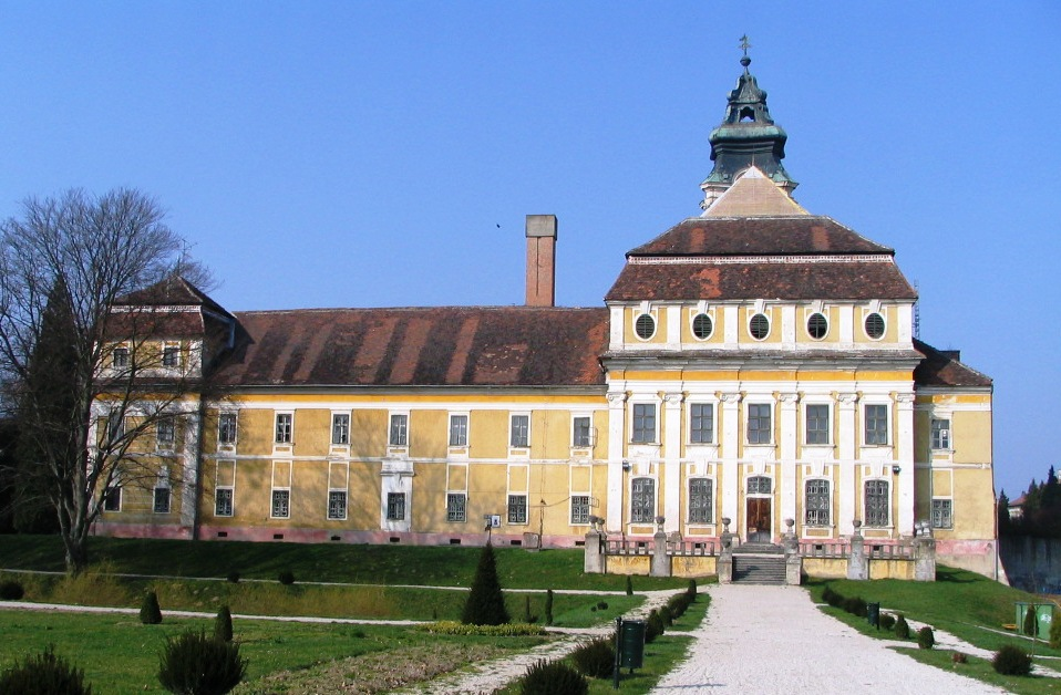 Szentgotthárd Abbey (rear view) in Szentgotthárd, Vas County, Hungary